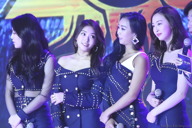 160417 D&S 20th Anniversary Ceremony